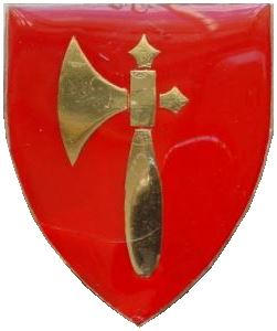 SADF era Winterberg Commando emblem